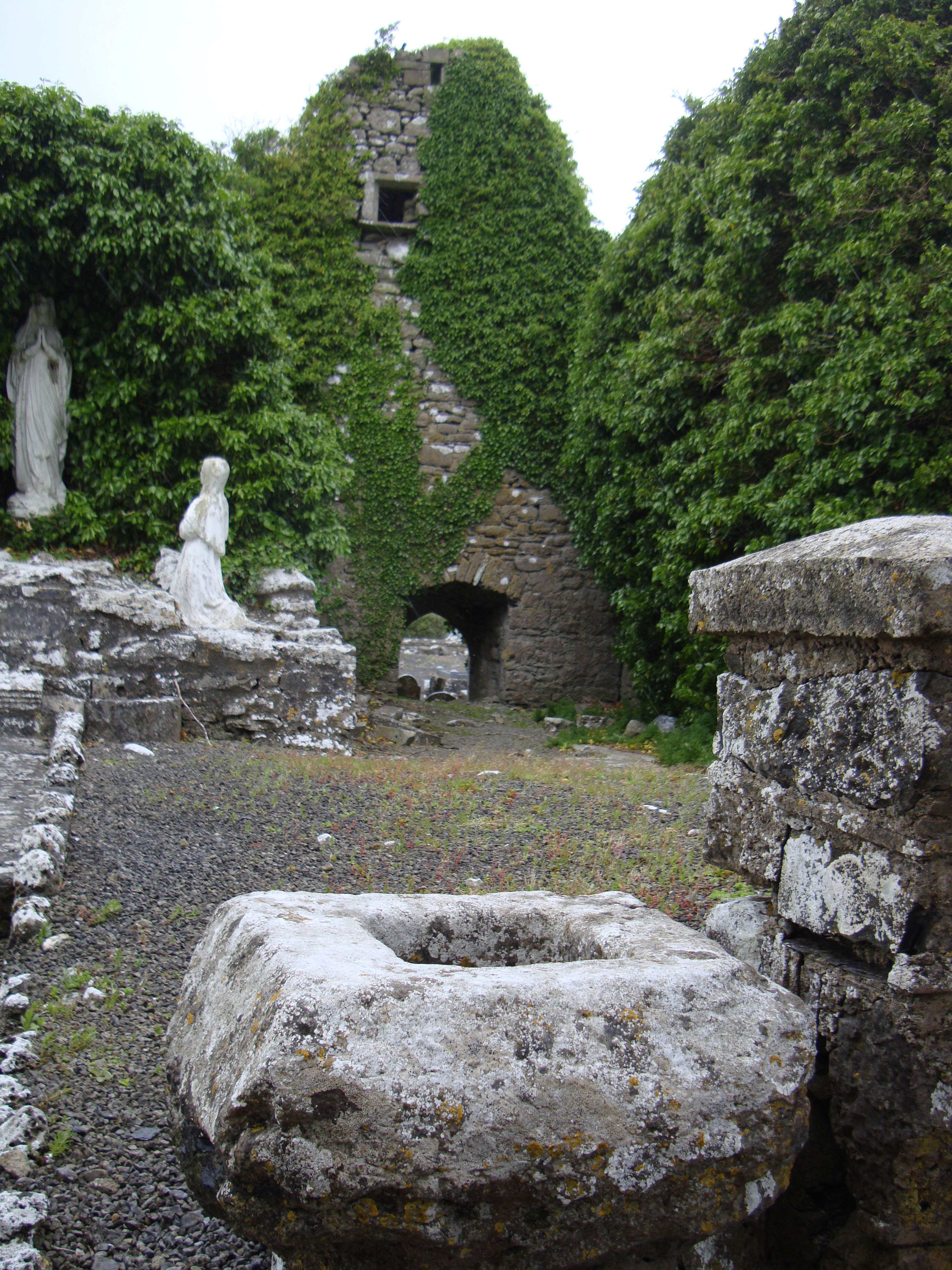 Photograph of the interior of Mayo Abbey, Co. Mayo, Ireland